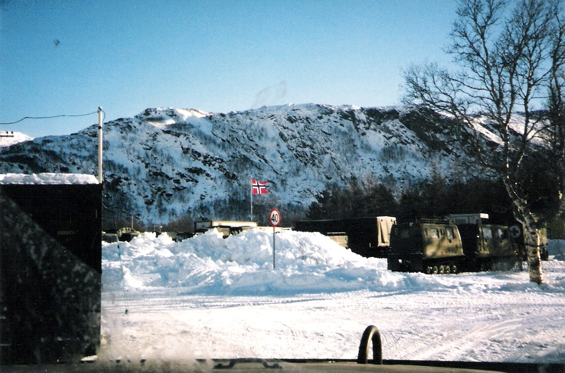 Norway, Narvik, Maneuver Strong Resolve, 3rd - 27th March 1998, (NSE)